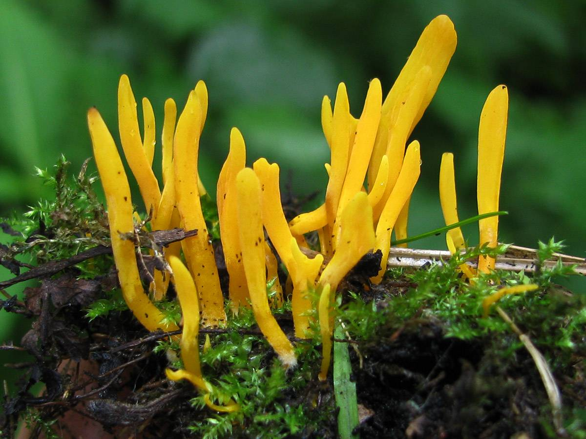 Clavulinopsis helvola (Pers.) Corner Image location: Pokrovskoye-Streshnevo, Moscow, Russia Recognized by sight For more information about this, see the observation page at Mushroom Observer.